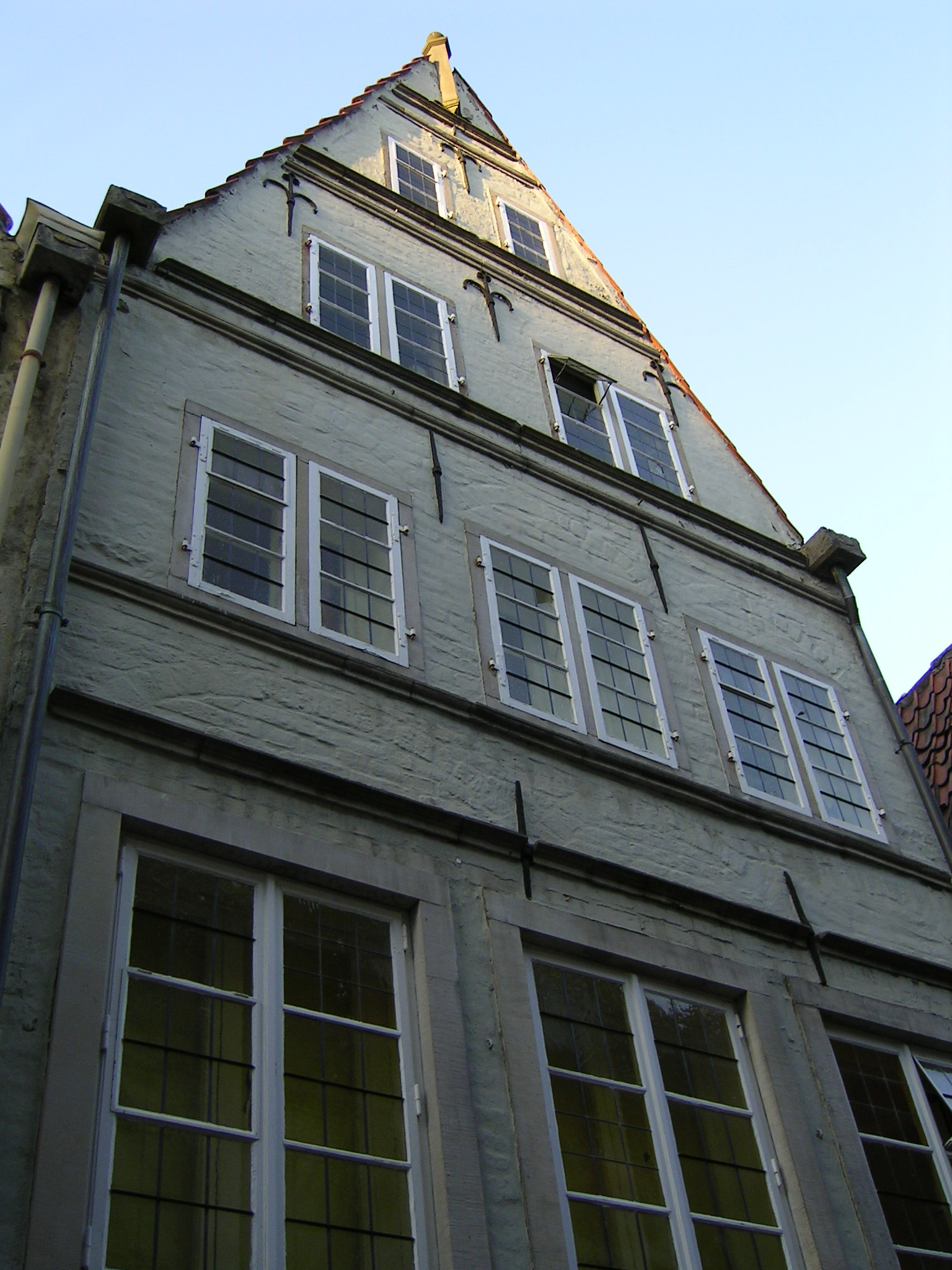 Houses from the 15th and 16th centuries along the narrow alleys in Bremen’s oldest surviving quarter